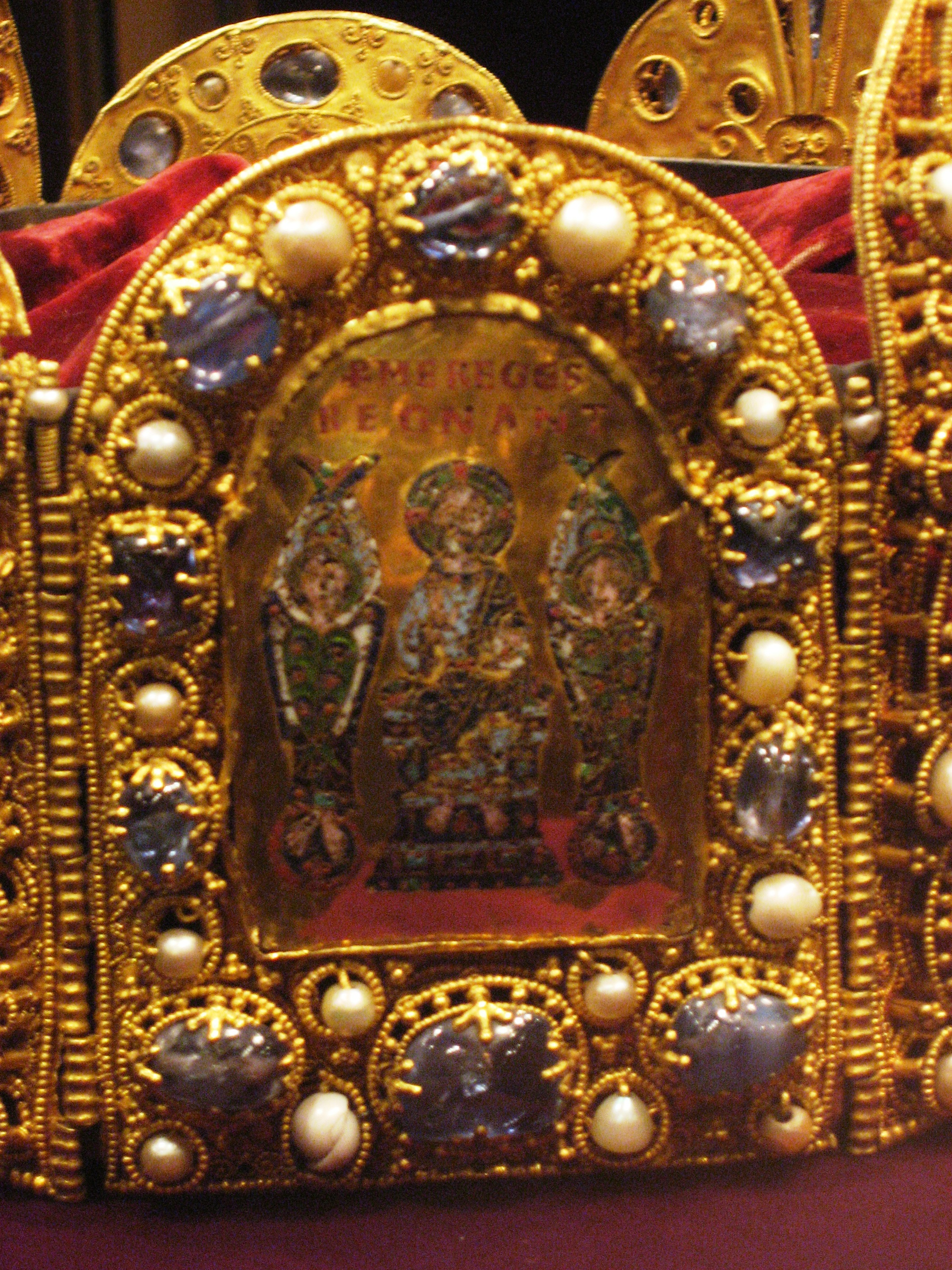 Scene from the New Testament. Christ with two angels. The Imperial Crown Western Germany 2nd half of the 10th century The cross is an addition from the early 11th century; the arch dates from the reign of Emperor Conrad II (ruled 1024-1039); the red velvet cap is from the 18th century. Gold, cloisonné enamel, precious stones, pearls Brow plate: H 14.9 cm, W 11.2 cm; cross: H 9.9 cm SK Inv. No. XIII 1